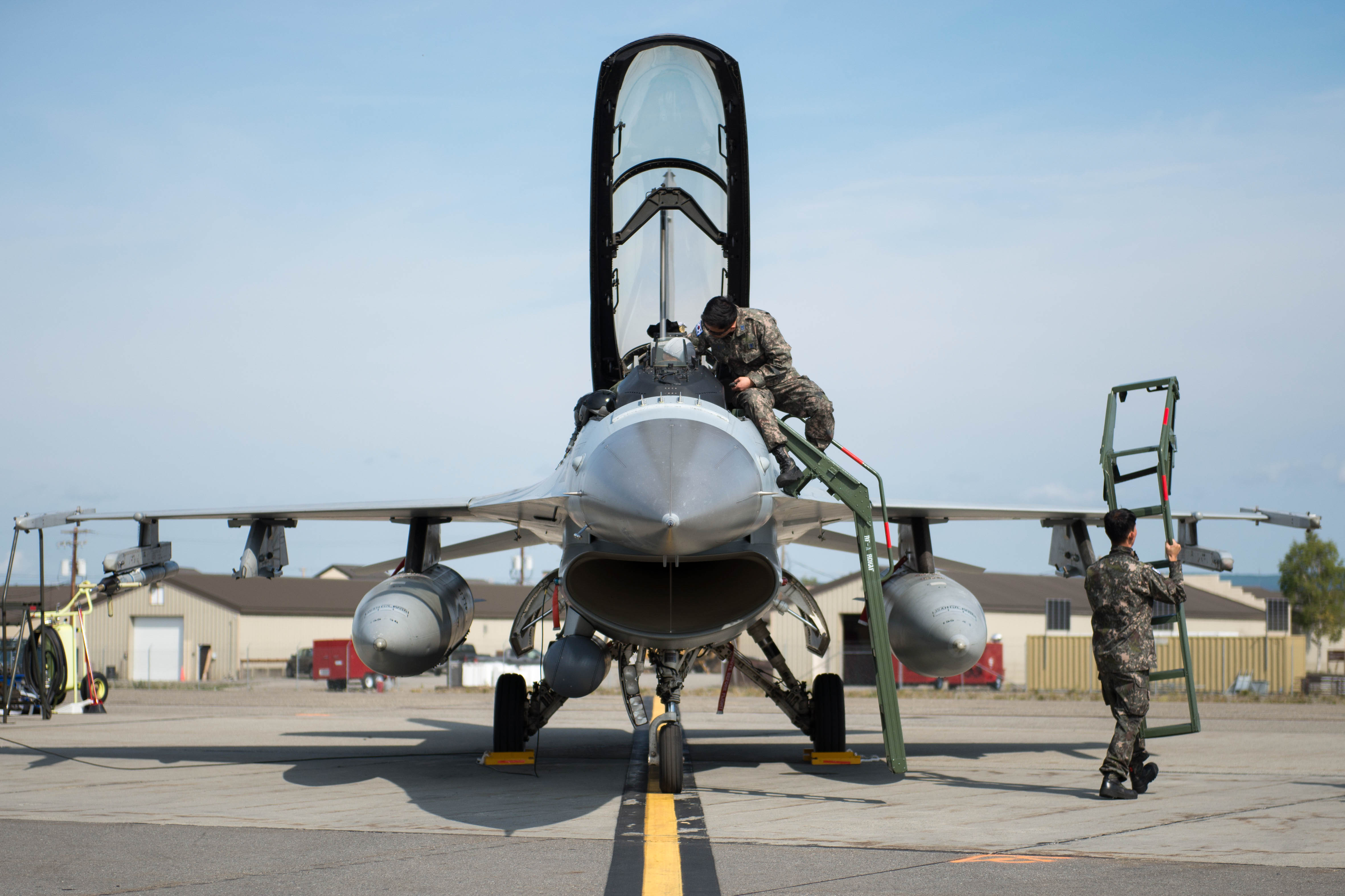 Members of the South Korean air force inspect their F-16D Fighting Falcon prior to launch at Eielson Air Force Base, Alaska, Aug. 4, 2015. The South Korean air force is participating in RF-A 15-3, a Pacific Air Forces field training exercise for U.S. and partner nation forces, providing combined offensive counter-air, interdiction, close air support and large force employment training in a simulated combat environment. (U.S. Air Force photo/1st Lt. Elias Zani)